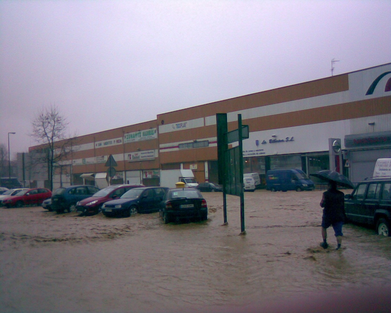 Floods at Trapagaran in Biscay, Basque Country.